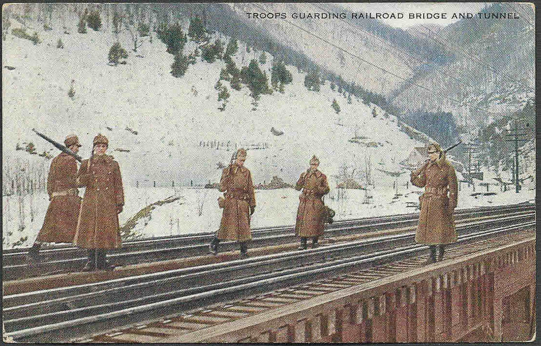 Postcard photo of US Army troops guarding the Hoosac Tunnel in western Massachusetts after the US entered World War I. The tunnel was a key point of traffic for goods to and from the West and was considered important enough to guard in this manner.